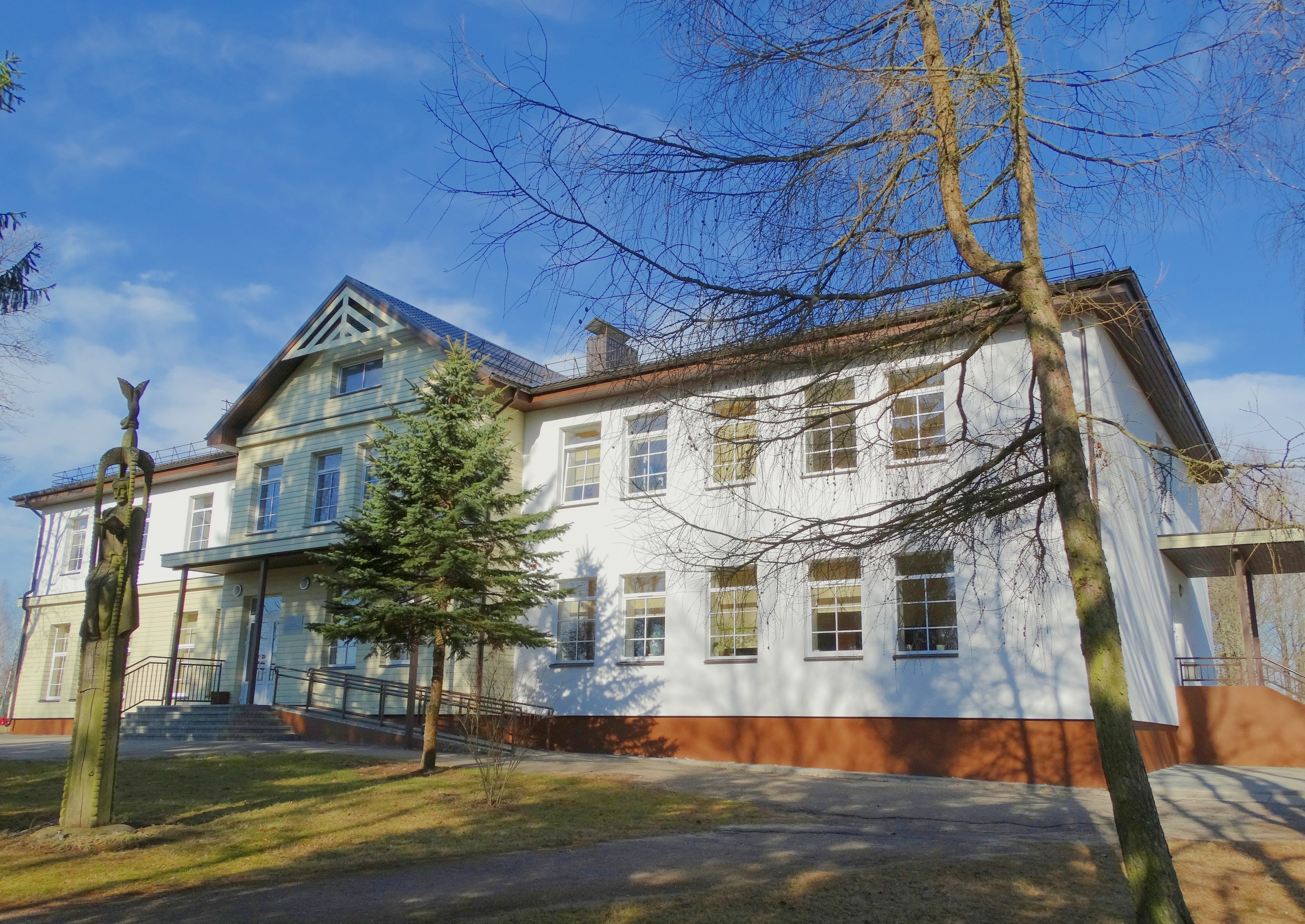 School–multifunction centre, Kurtuvėnai, Šiauliai district, Lithuania